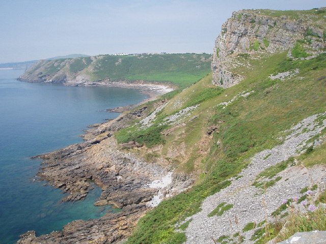 From Pwlldu Head towards Southgate. Beautiful and little walked cliffs.